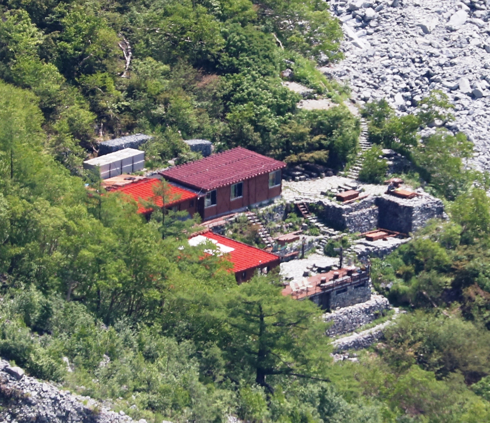 Dakesawagoya hut seen from Mount Nishihotaka in Matsumoto City, Nagano Prefecture, Japan